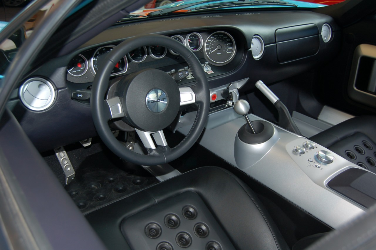 The interior of a Ford GT